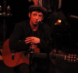 Jamait in concert